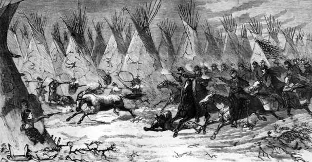 Custer and the 7th Cavalry raid the Native American (Cheyenne) encampment of Black Kettle on the Washita River, Oklahoma.